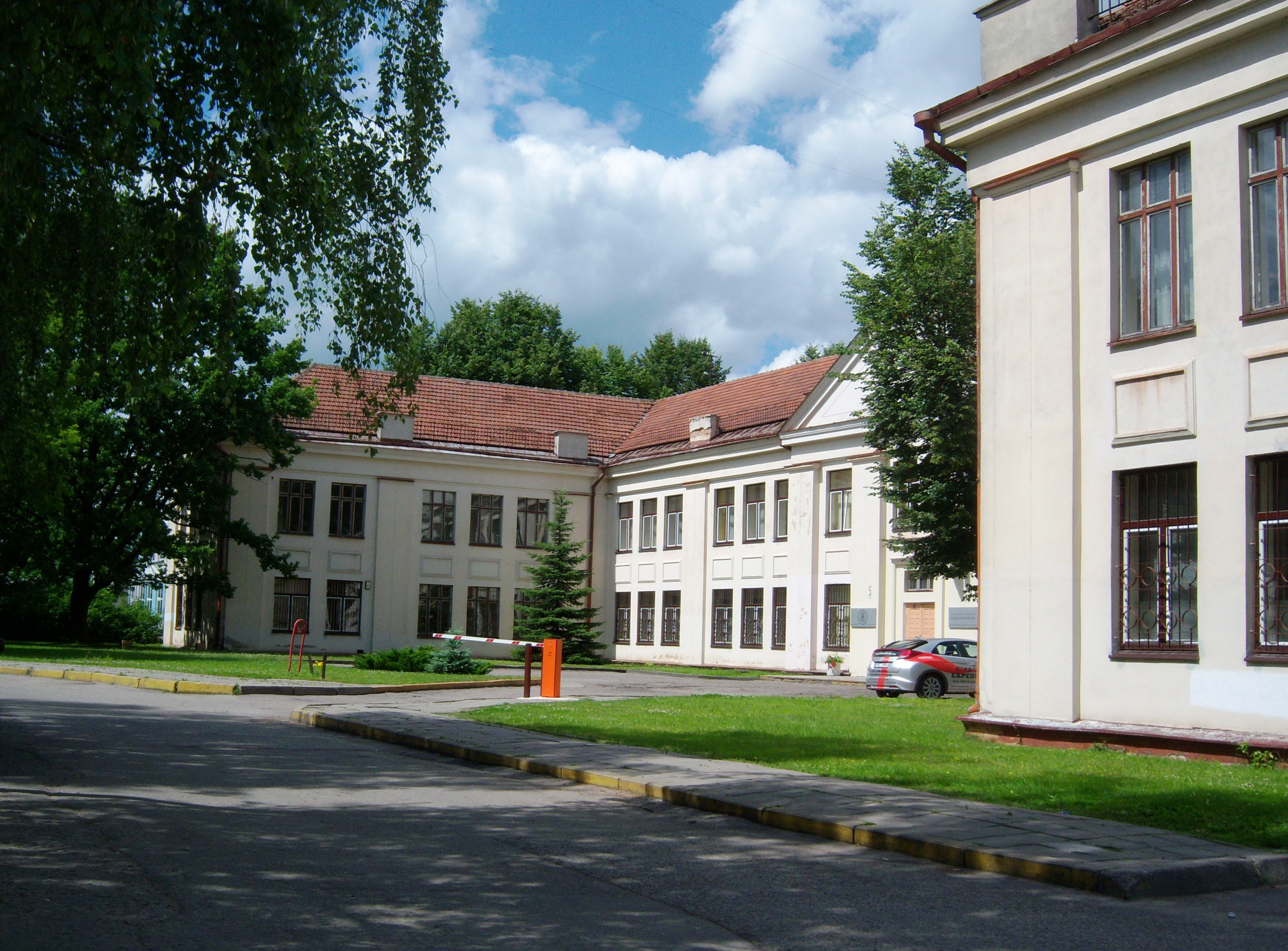 Vytautas Magnus University, Academy of Music in Aleksotas, Kaunas, Lithuania, Lithuania